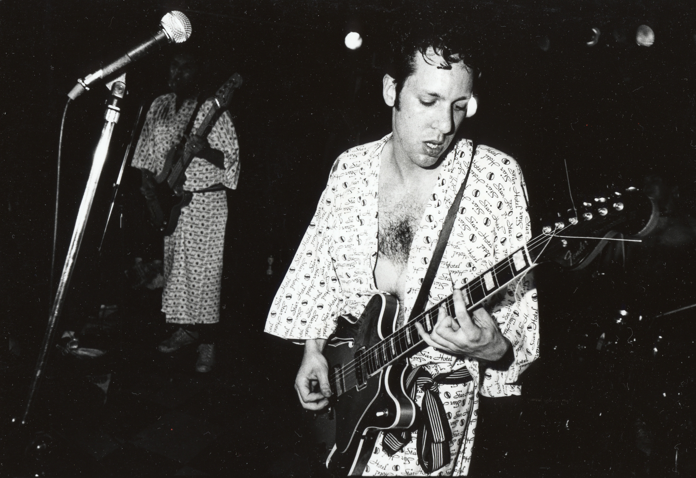 Devil Dogs in Tokyo, wearing Japanese KIMONOS